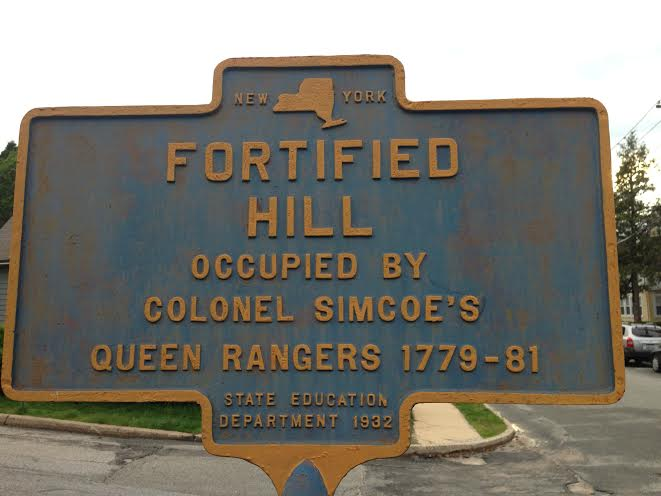 Plaque located at the corner of Prospect Street and Orchard Street, Oyster Bay, New York, commemorating Colonel Simcoe's Queen Rangers' occupation of a fortified hill at this location from 1779-1781.